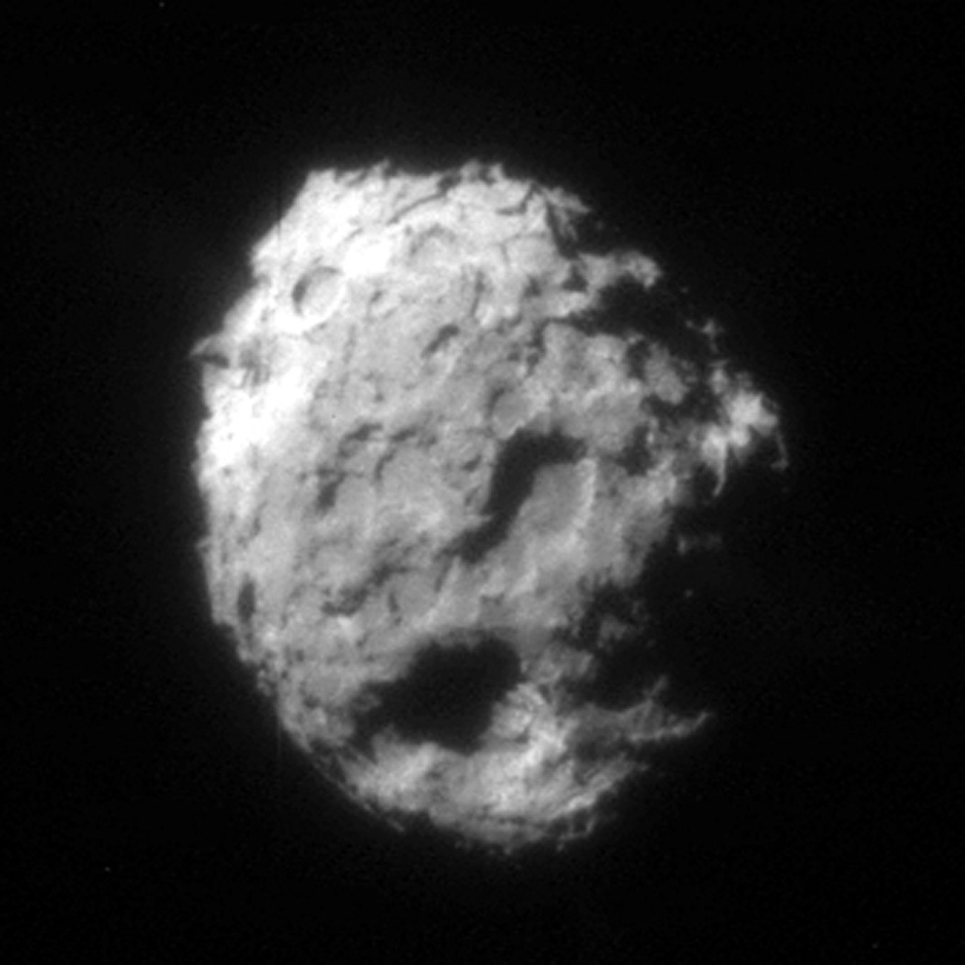 Core of comet 81P/Wild. Several large depressed regions can be seen. Comet Wild 2 is about five kilometers (3.1 miles) in diameter. Taken by Stardust on January 2, 2004.